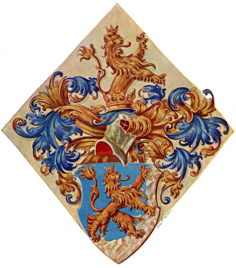 Ukrainian sich riflemen's coat of arms